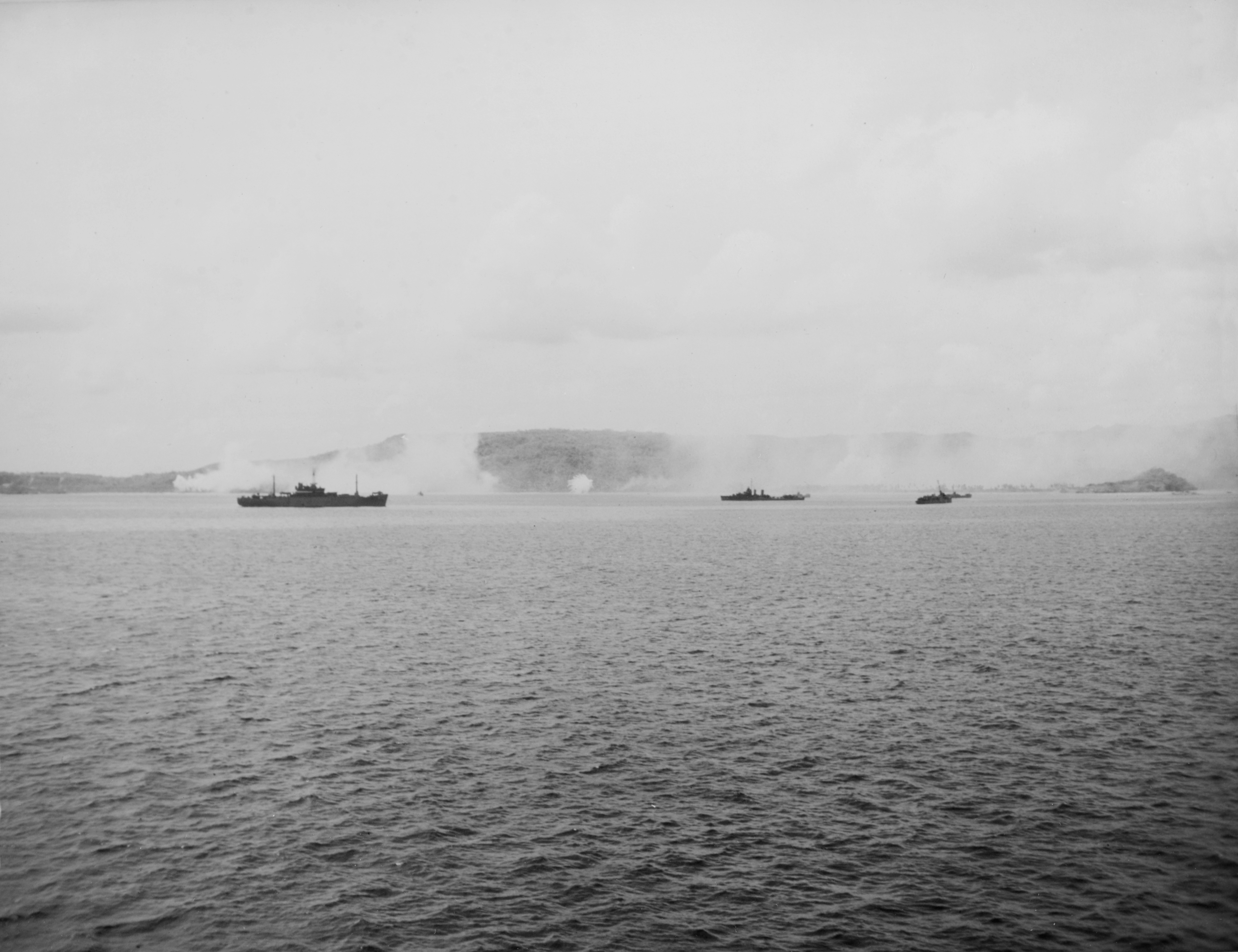 Invasion of Guam, July 1944: Pre-invasion bombardment of Guam, seen from the battleship USS New Mexico (BB-40), 14 July 1944. An amphibious command ship (AGC), probably Task Force 53 flagship USS Appalachian (AGC-1), is at left. Other ships present include a Farragut-class destroyer (right center), an old Wickes/Clemson-class fast transport (APD) and two landing craft, infantry (LCI).